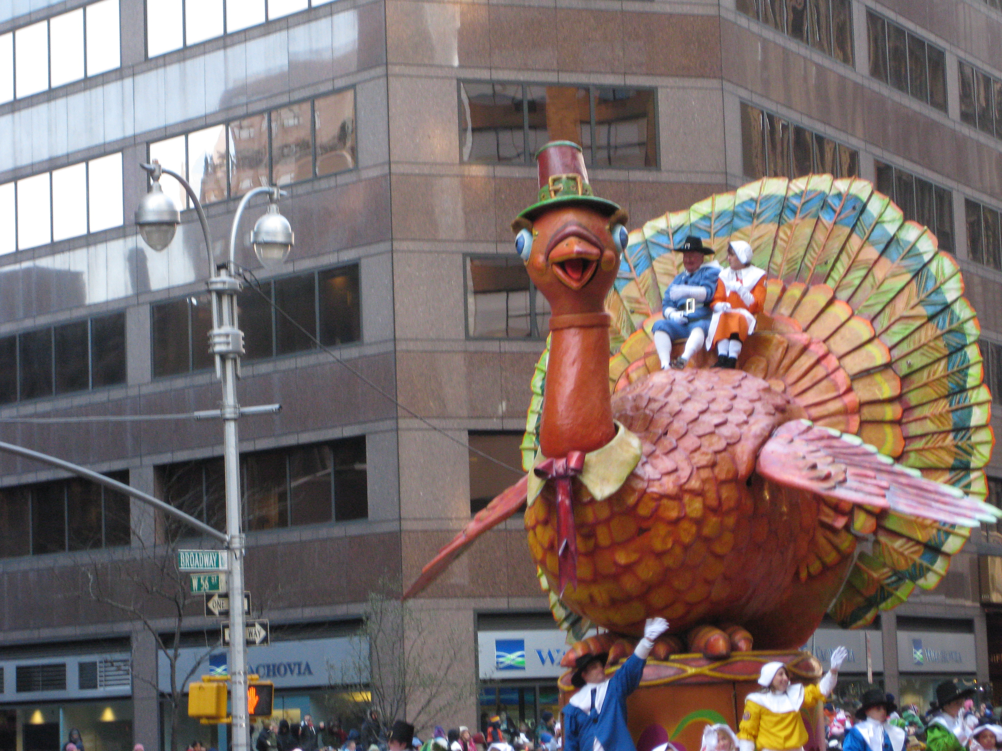 The famous Macy's Turkey at Macy's Thanksgiving Day Parade, New York 2008.